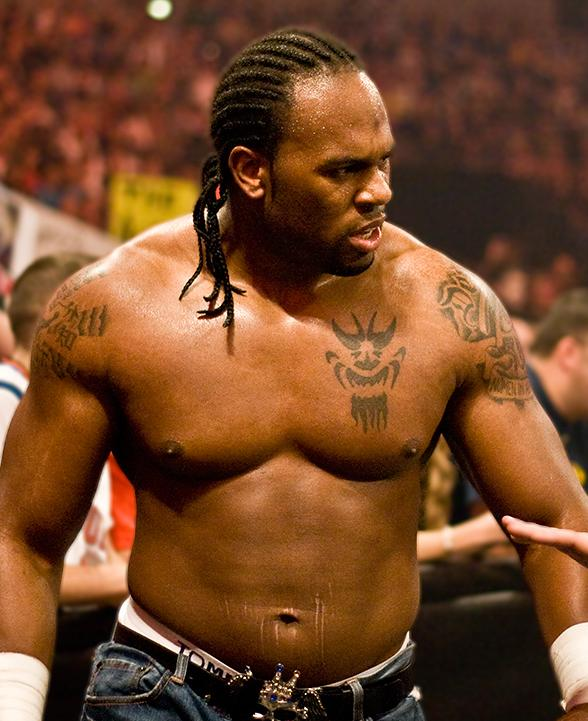 Shad Gaspard, Cryme Time WWE Monday Night Raw 800th Tampa